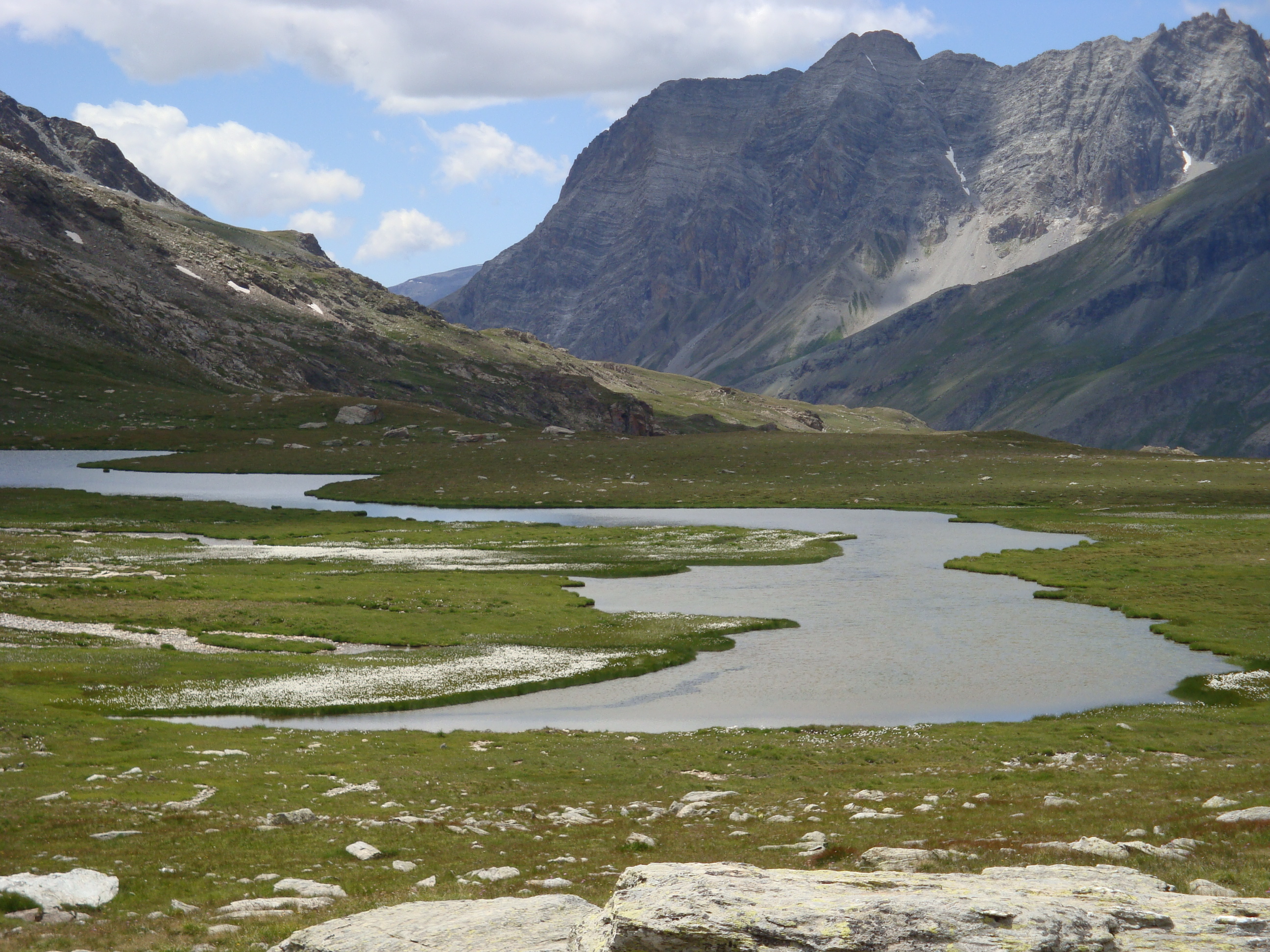 Lakes on French side of the Col du Longet (2655m) from which the Ubaye river takes it's source.